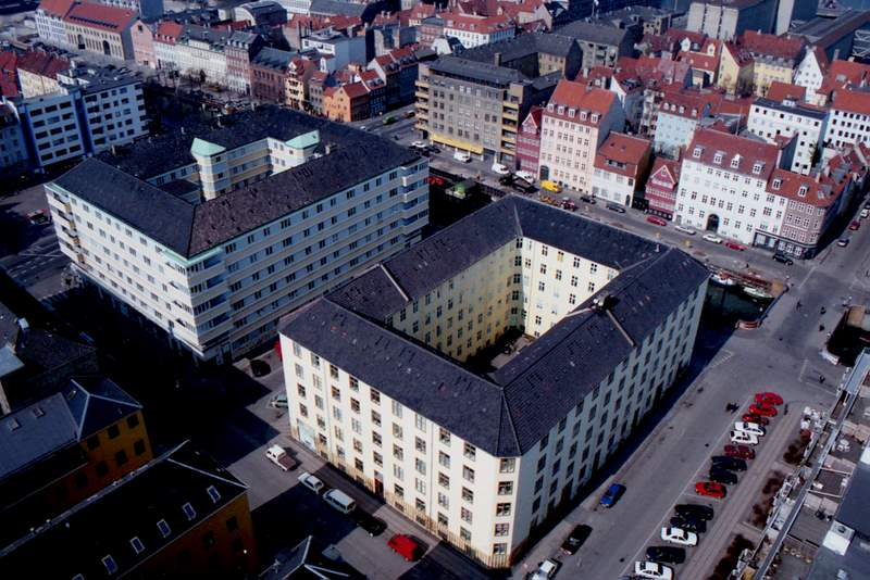 Edvard Thomsen's two blocks at the site of the demolished Women's Prison in Christianshavn in Copenhagen, Denmark